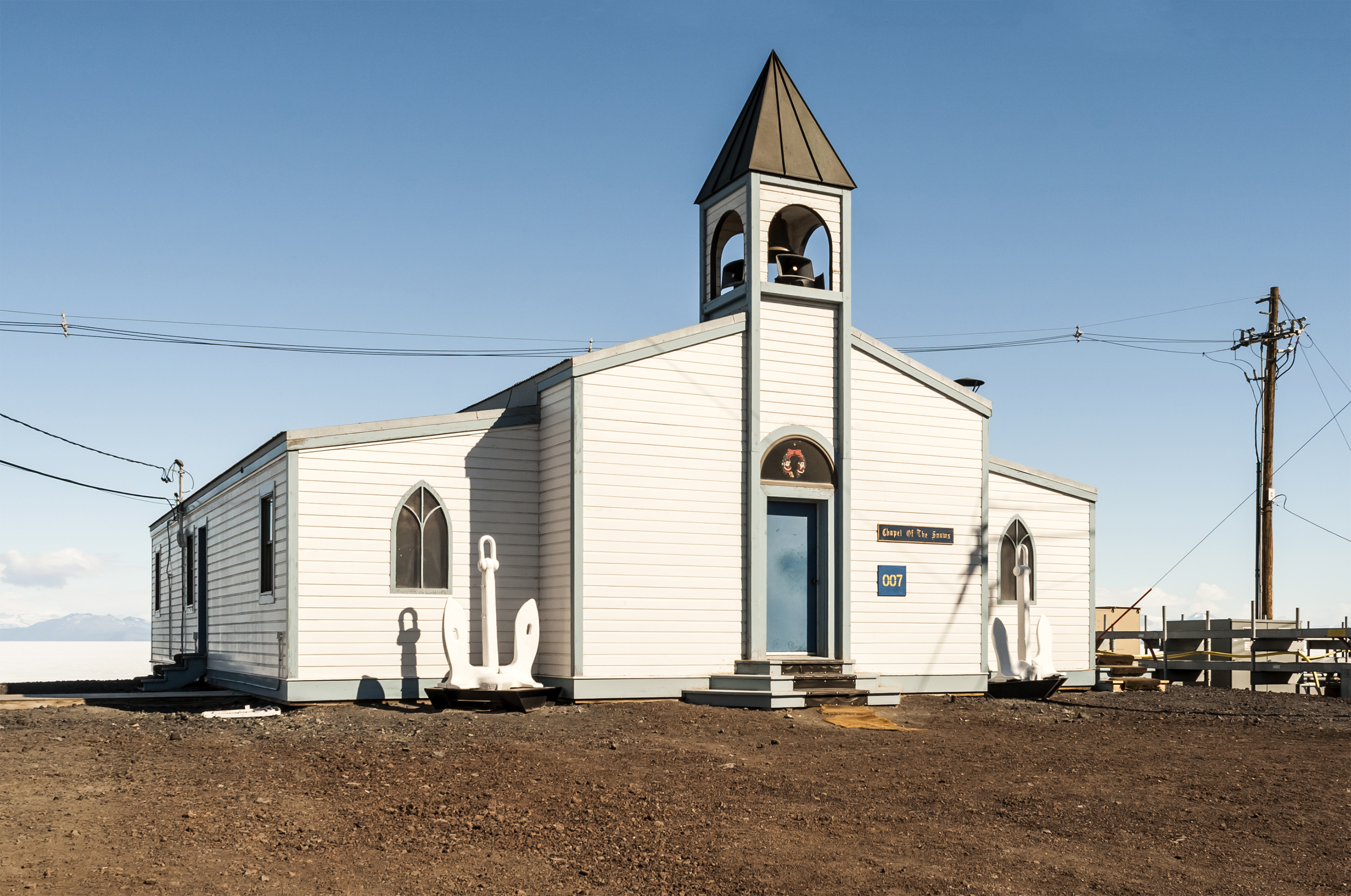 The Chapel of the Snows is a non-denominational Christian church located at the United States' McMurdo Station on Ross Island, Antarctica